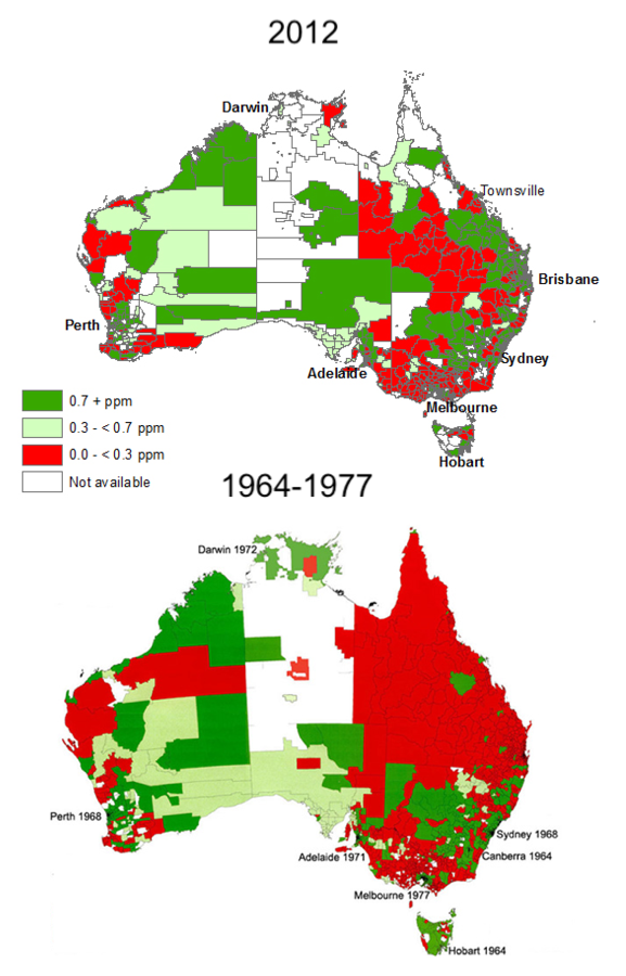 Fluoride in the water may vary within postcodes, especially in some rural and remote areas.